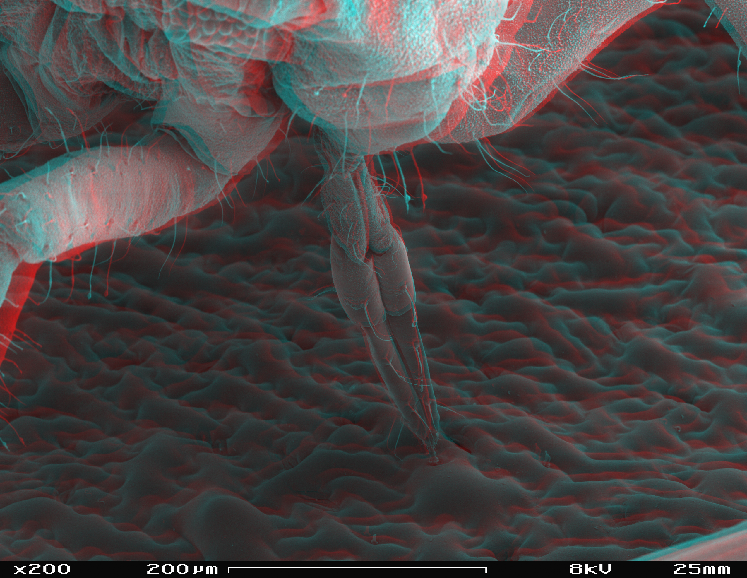 Anaglyph SEM image of Aphis fabae, magnification 200x